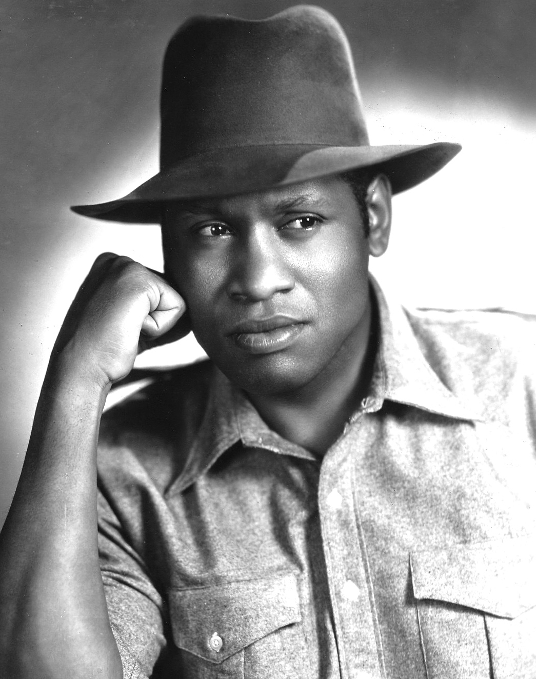 Publicity photo of Paul Robeson